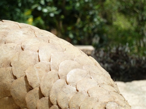 Indian Pangolin (Manis crassicaudata) in Kandy, Sri Lanka